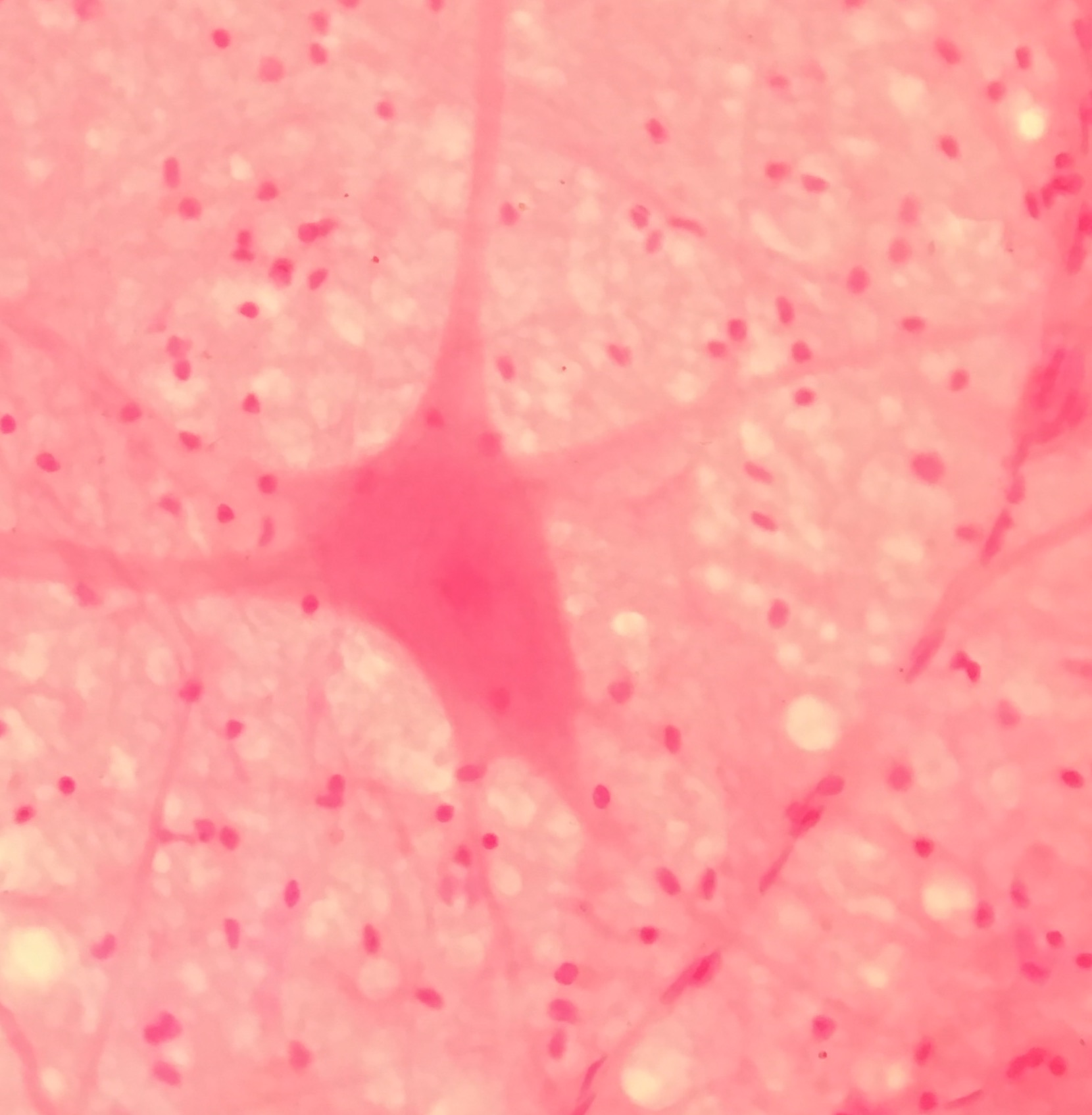 A section of neural tissue. A huge neuron in the center is surrounded by small gliocytes.